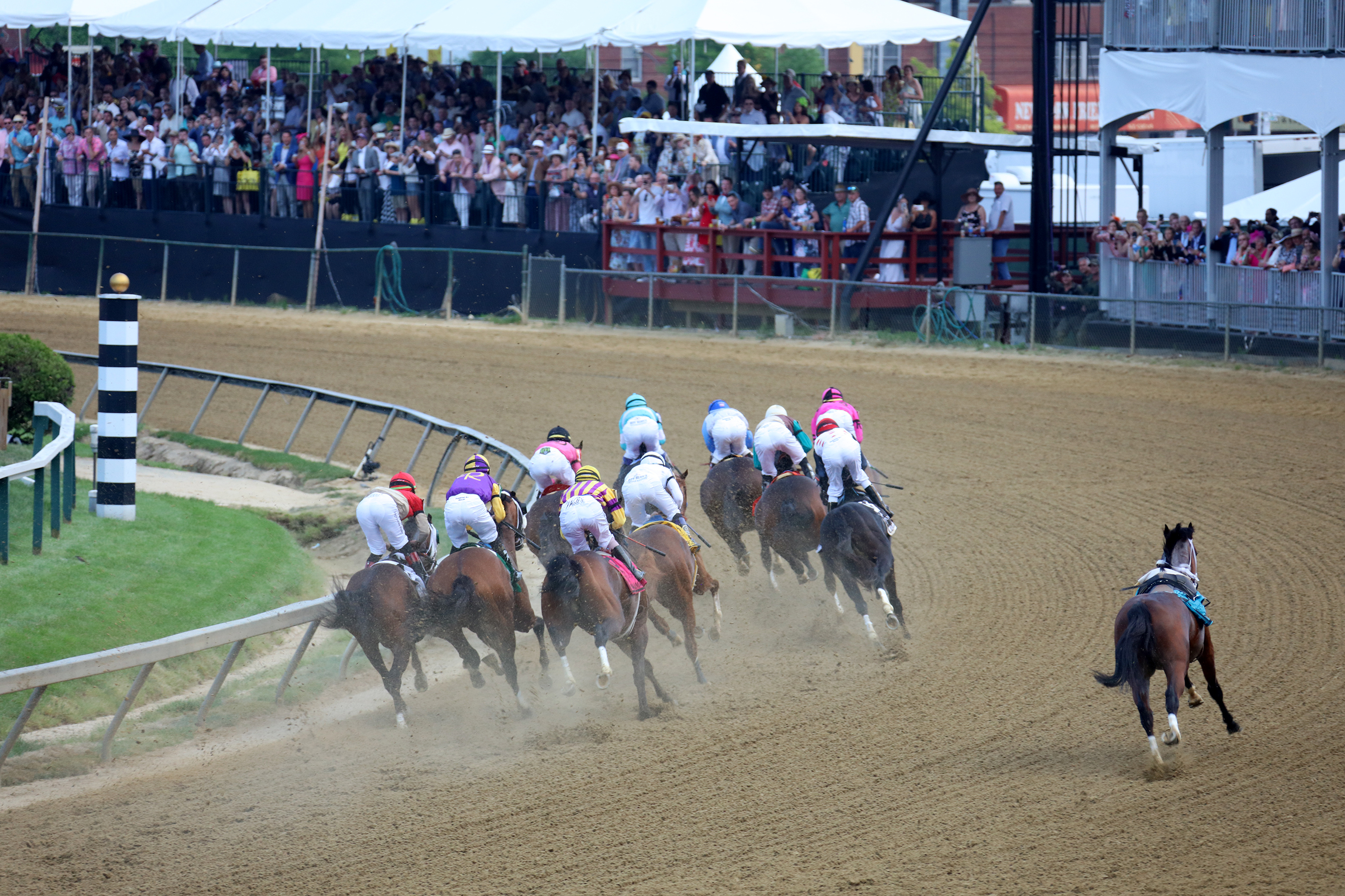 Rounding the first turn in the 2019 Preakness Stakes. Riderless Bodexpress on the outside